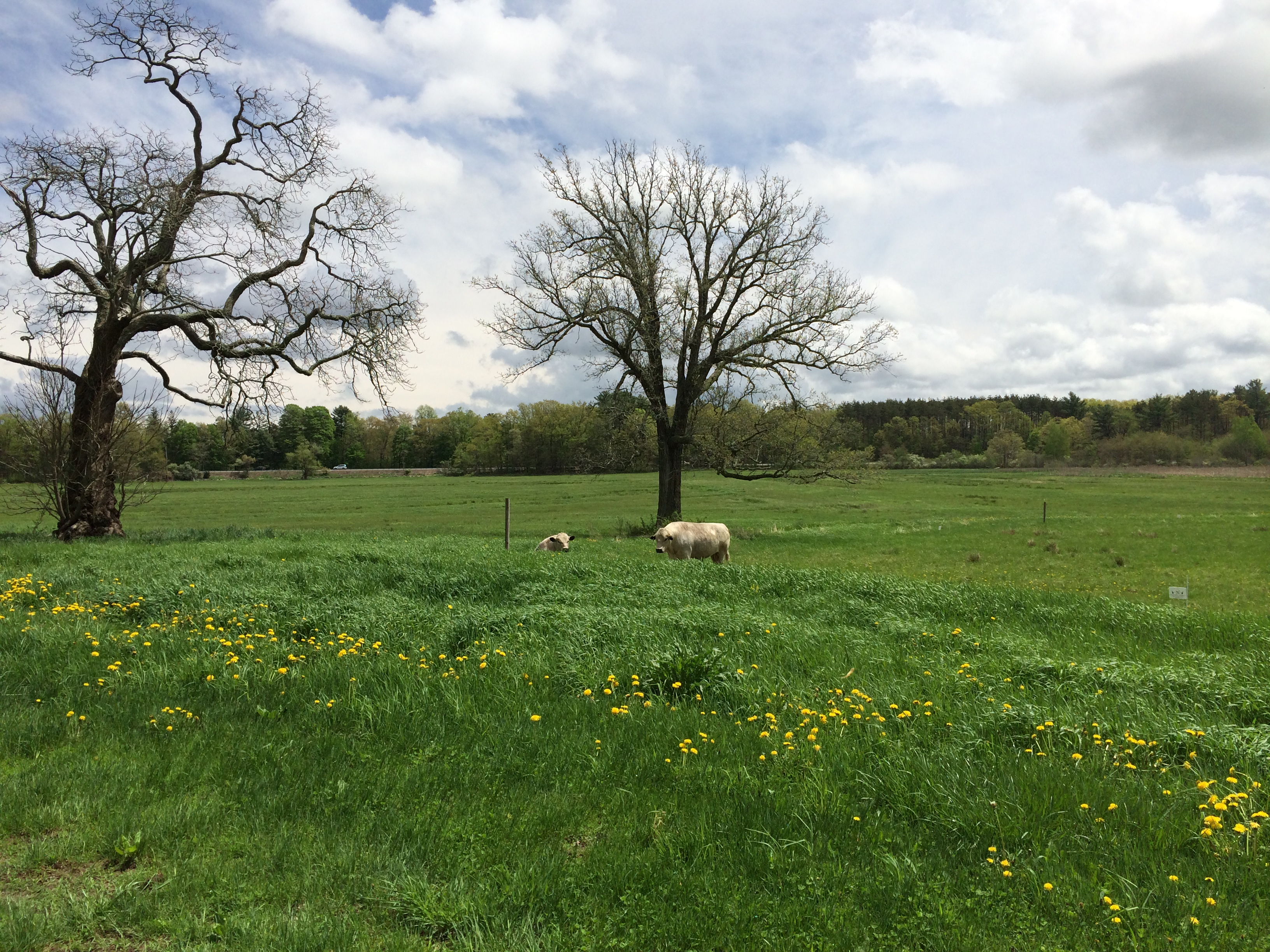 "Rolling grasslands, grazing livestock, stone walls, and historic farm buildings are part of this pastoral landscape – a rare glimpse into New England’s agricultural past. A gift of Colonel Francis R. Appleton, Jr., and his wife Joan, Appleton Farms is one of the oldest continuously operating farms in the country, established and maintained by nine generations of the Appleton family." -- Source: The Trustees of Reservations website Appleton Farms 219 County Road (Route 1A) Ipswich, Massachusetts